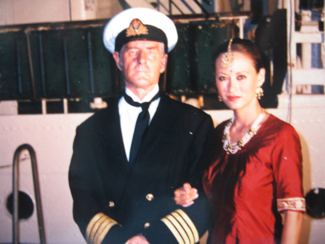 Unidentified man and Julia Nickson-Soul on the set of the 1989 BBC TV miniseries Around the World in 80 Days.